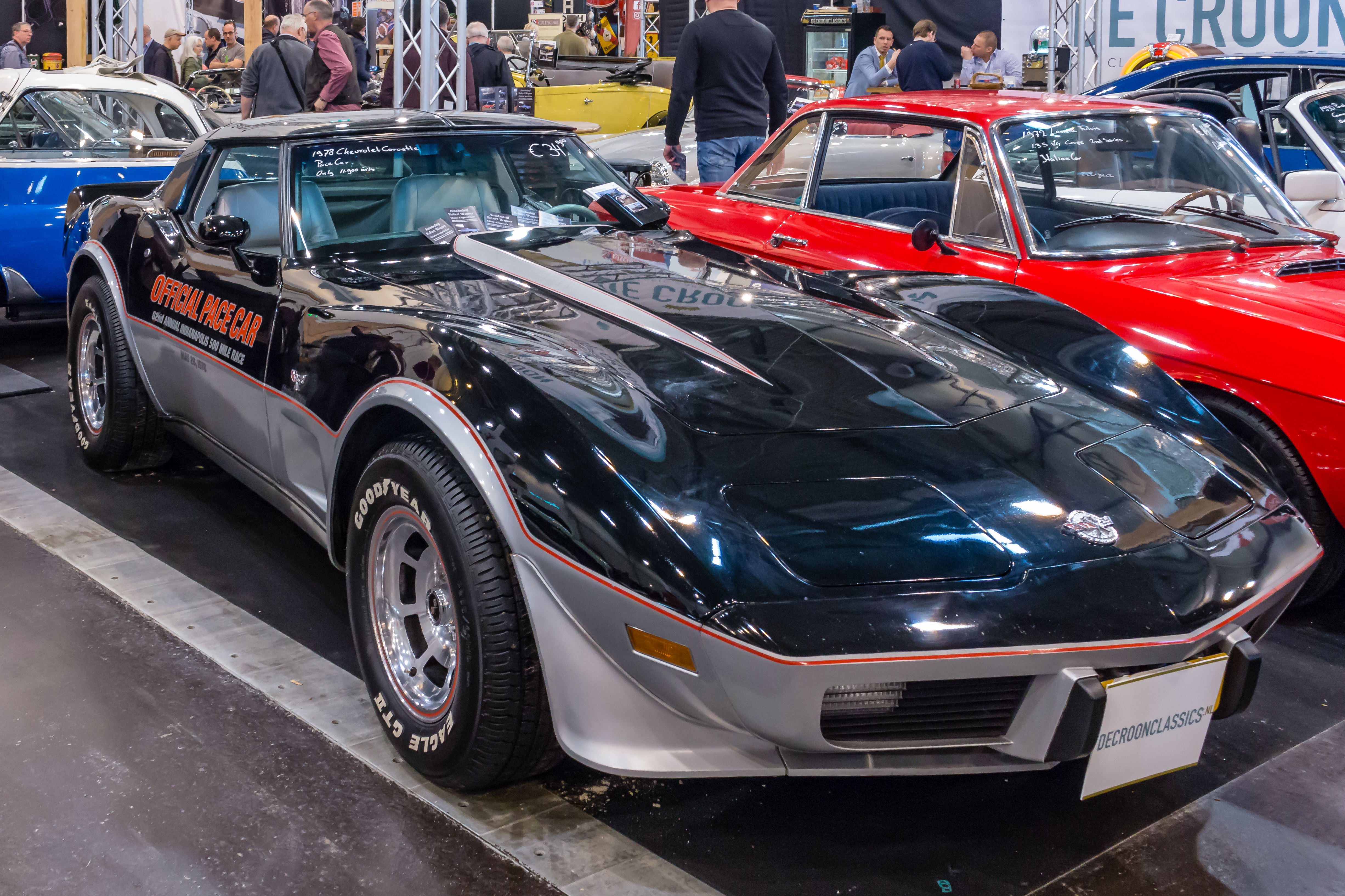 Chevrolet Corvette 1978 Indianapolis 500 pace car, Techno Classica 2018, Essen